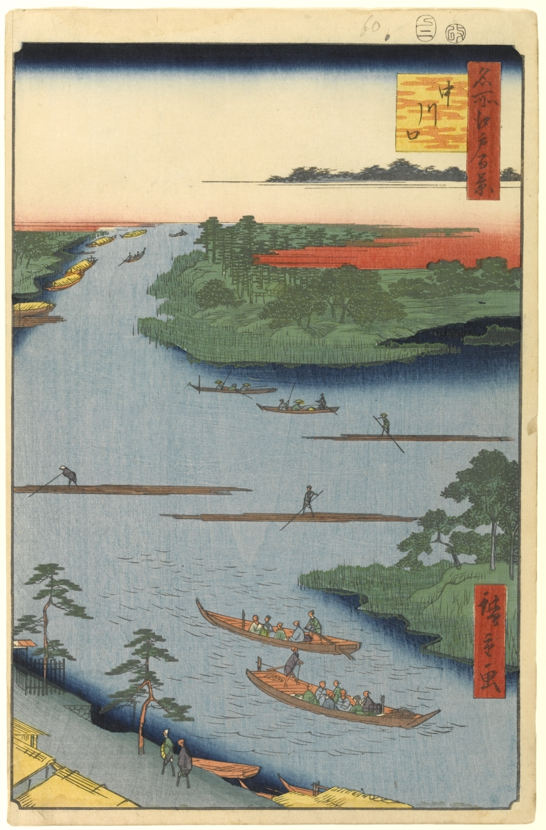 Part of the series One Hundred Famous Views of Edo, no. 070, part 2: Summer.